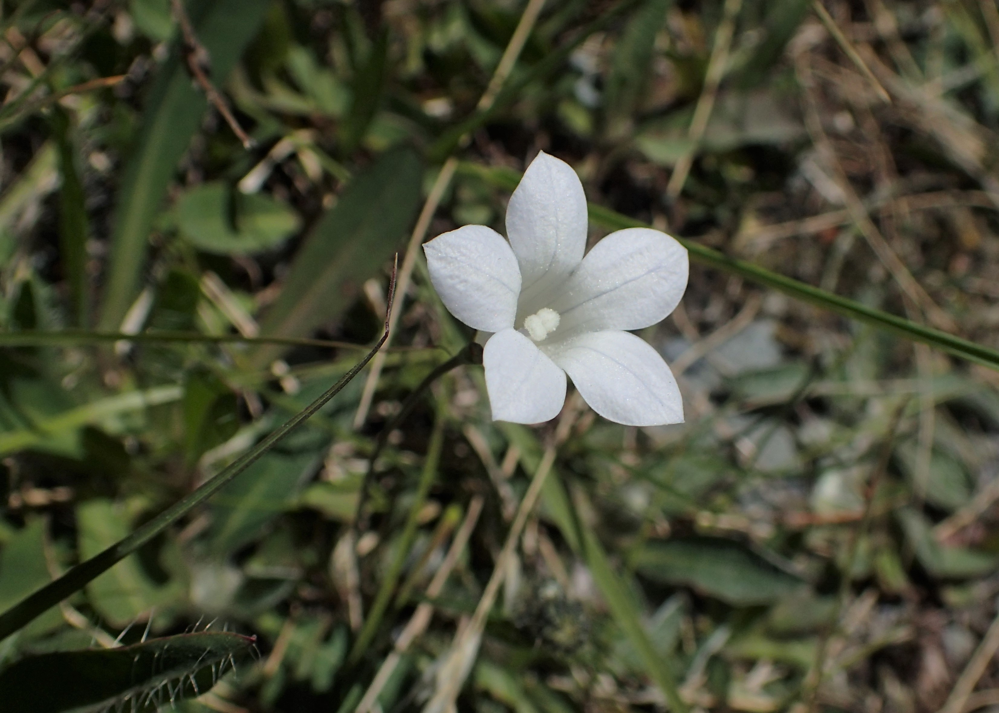 Wahlenbergia albomarginata on Kea Point Mt Cook, Canterbury (New Zealand)